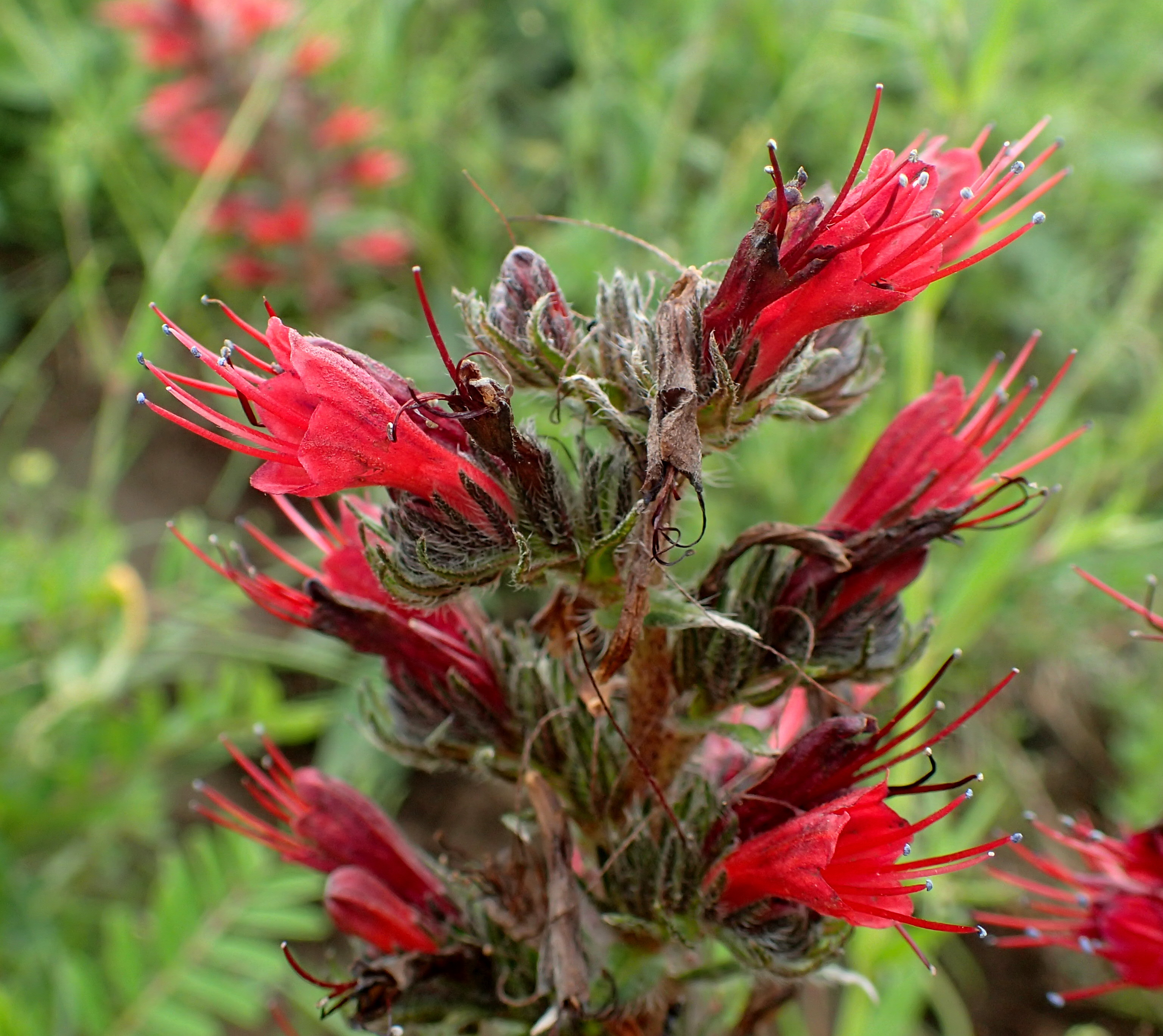 Echium russicum in vicinity of Shahumyan, near Wanadzor, Armenia